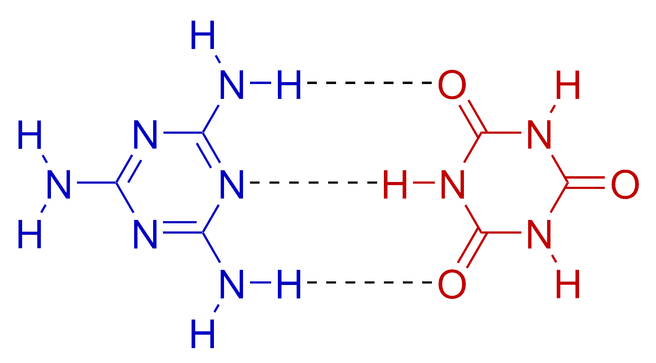 Chemical structure of melamine-cyanuric acid complex